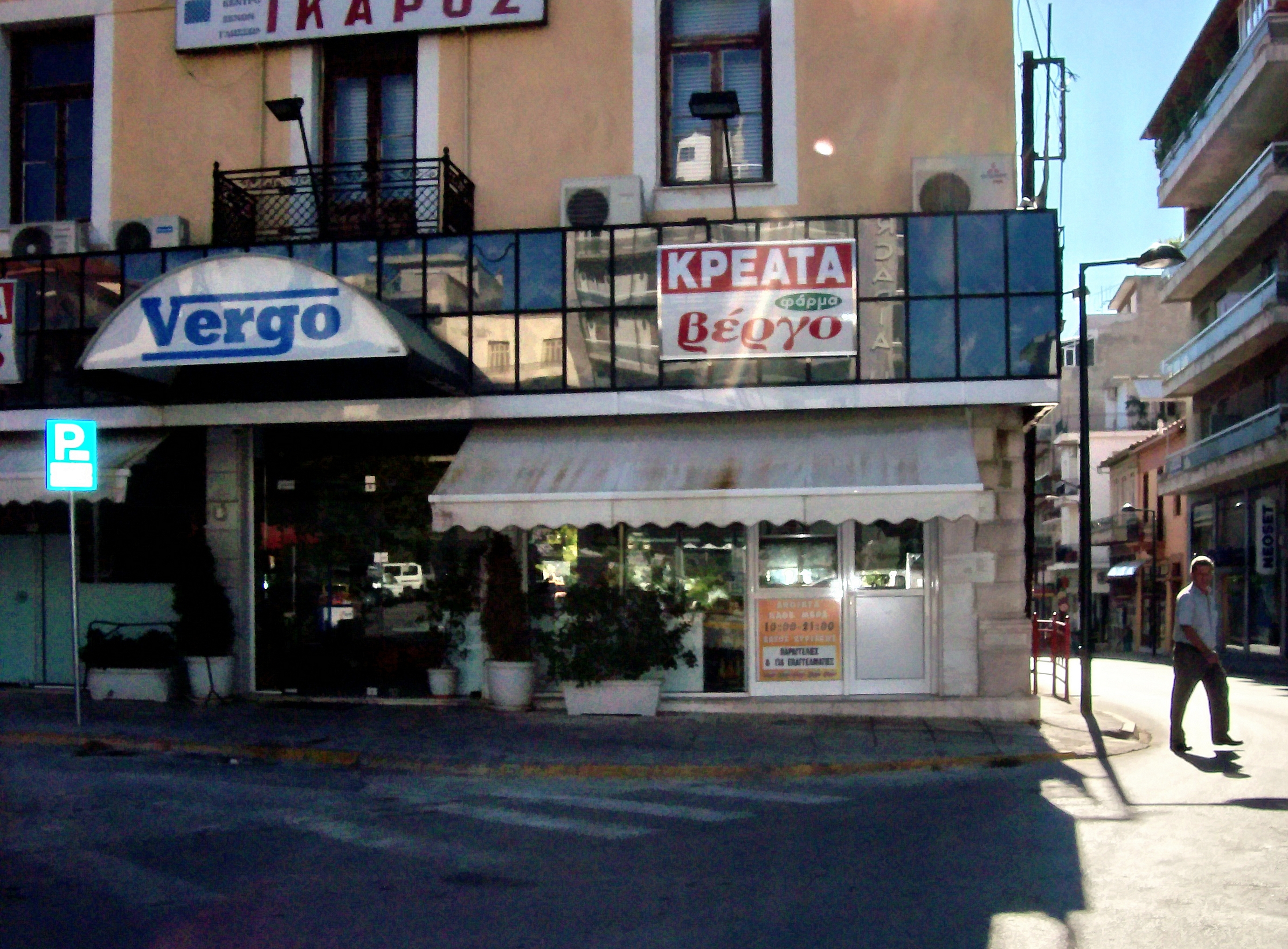 Street scene in Tripoli, Greece towards late evening.